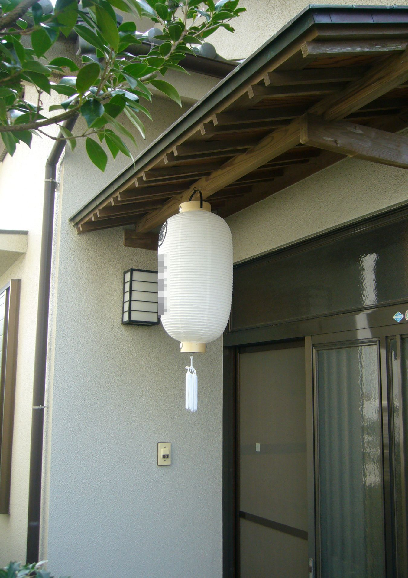 shin-bon-paper lantern,shin-bon-cyochin,katori-city,japan